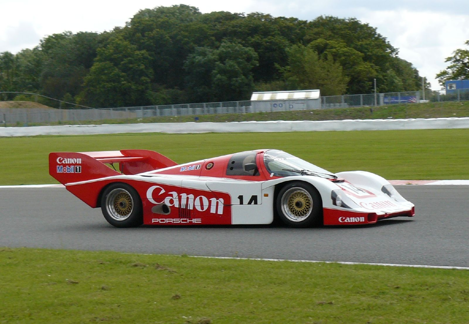 A Porsche 956 at the Silverstone Classic